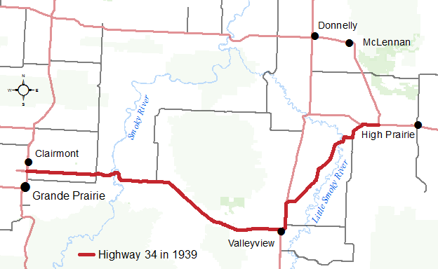 Alignment of former Highway 34 between 1939 and 1958 within Alberta in relation to nearby destination communities and the current provincial highway system within other base features including hydrography, provincial parks and the provincial green and white zones.